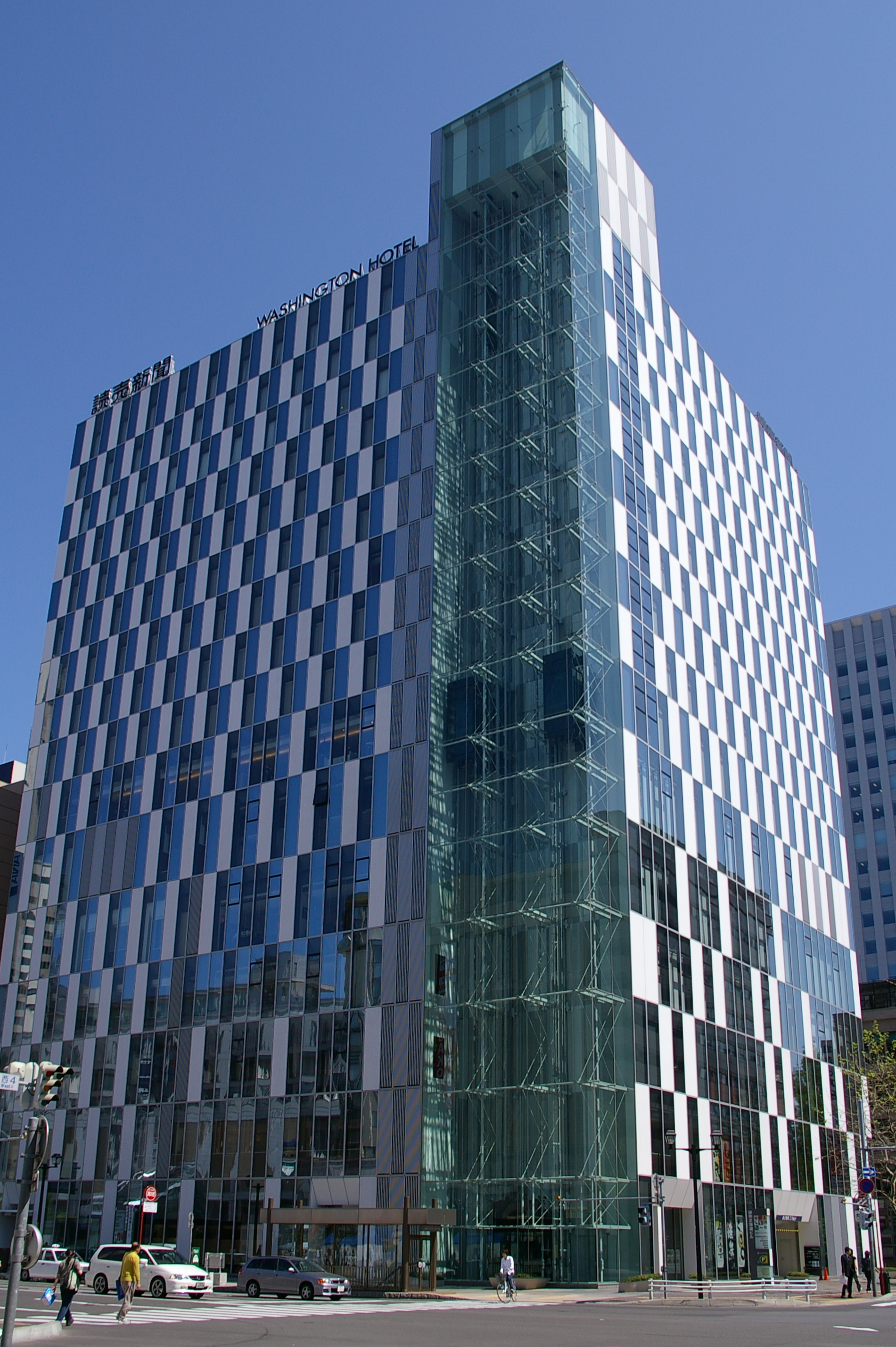 Photograph of Yomiuri Hokkaido Building, including Hokkaido Branch Office of Yomiuri Shimbun and Hotel Gracery Sapporo, in Chuo-ku, Sapporo, Hokkaido, Japan.